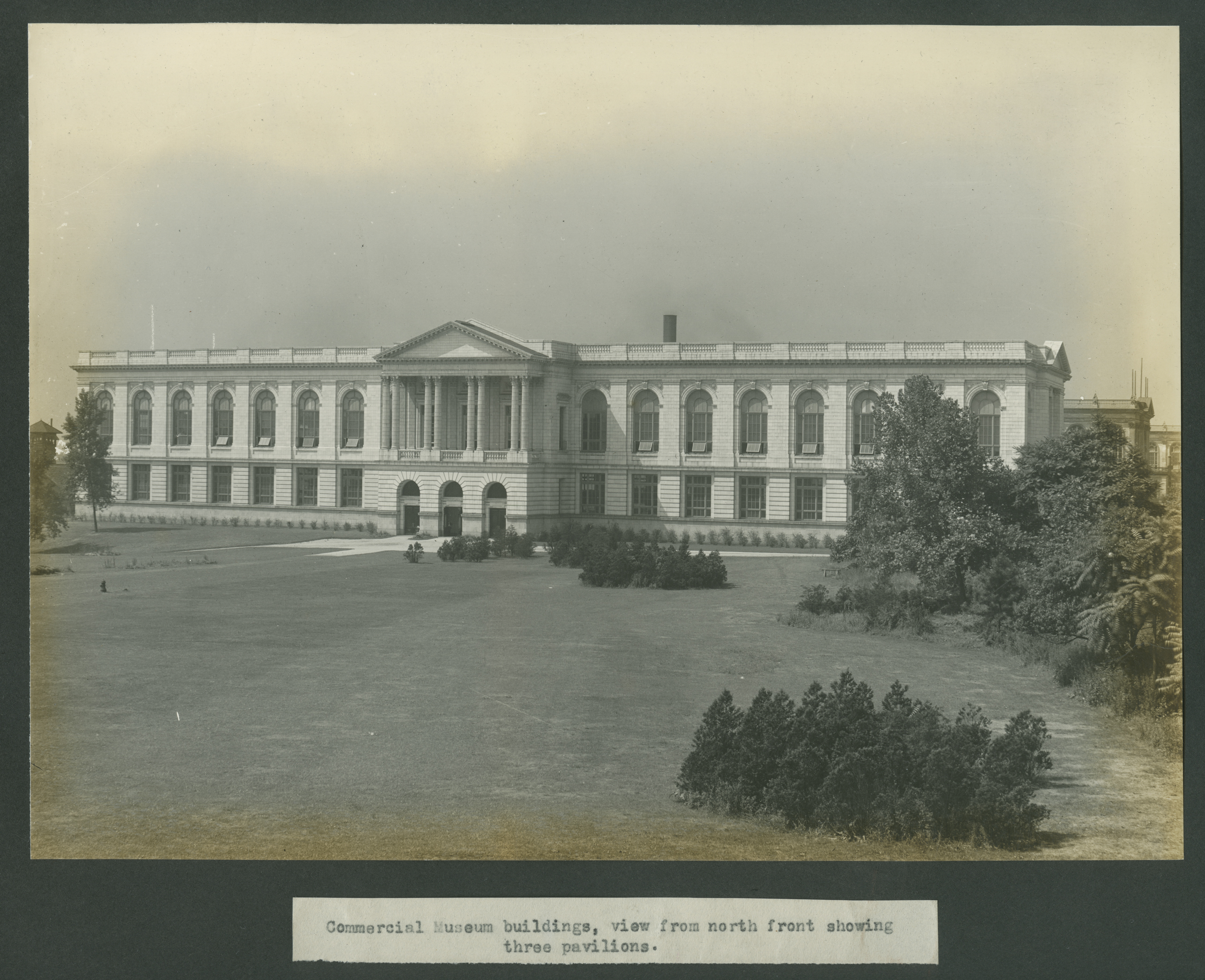 Commercial Museum buildings, view from north front showing three pavilions. [caption taken from photograph label]